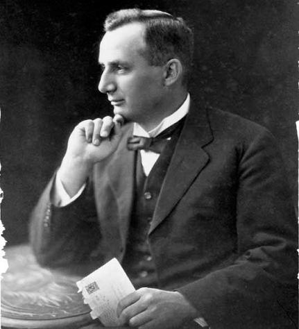 Charles Compton Reade (1890 - 1933), Town Planner, Journalist